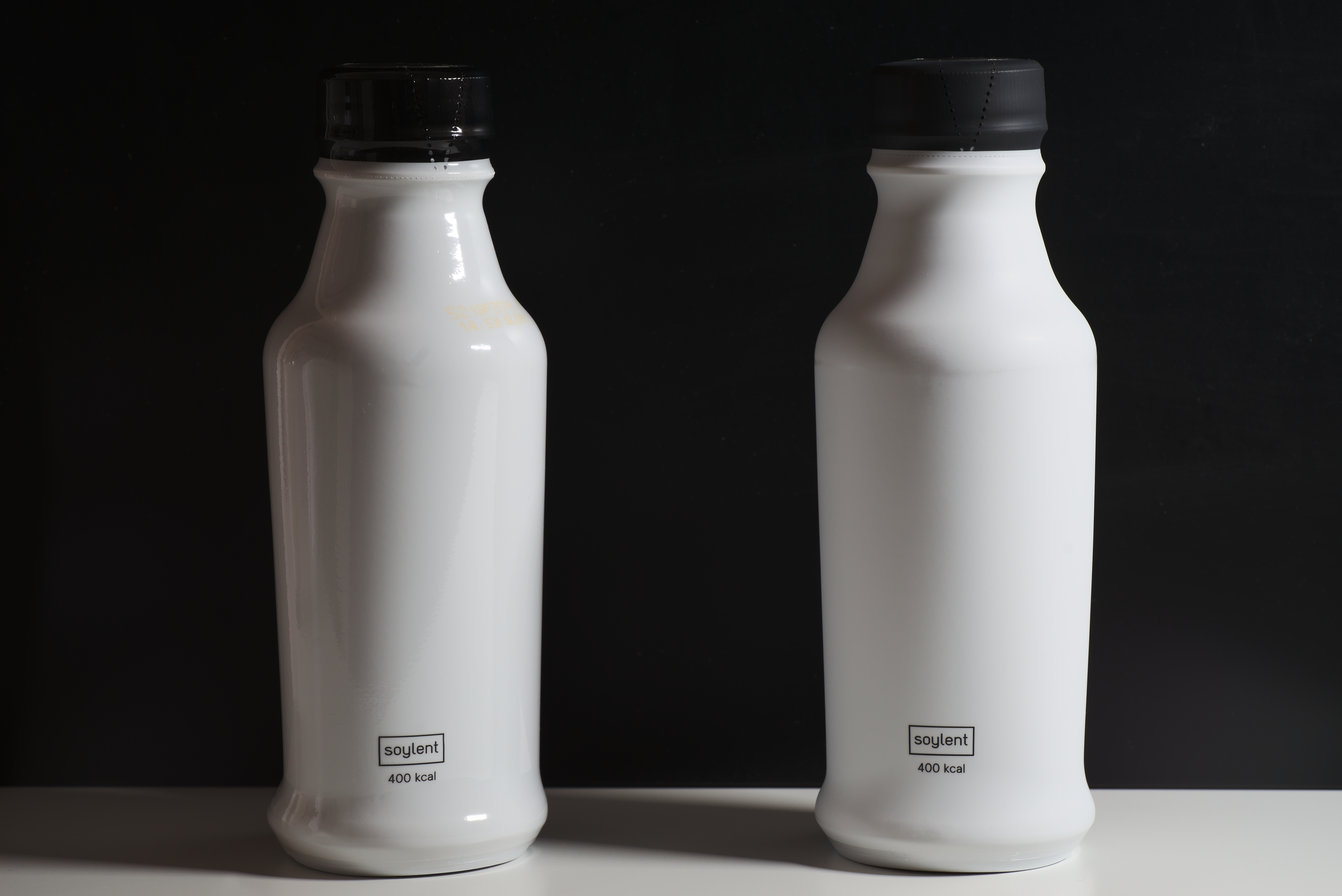 Comparison of bottles of of Soylent 2.0 from late 2015 (left) and early 2016 (right). In 2016, bottles of Soylent 2.0 began shipping in a matte white bottle instead of glossy white.